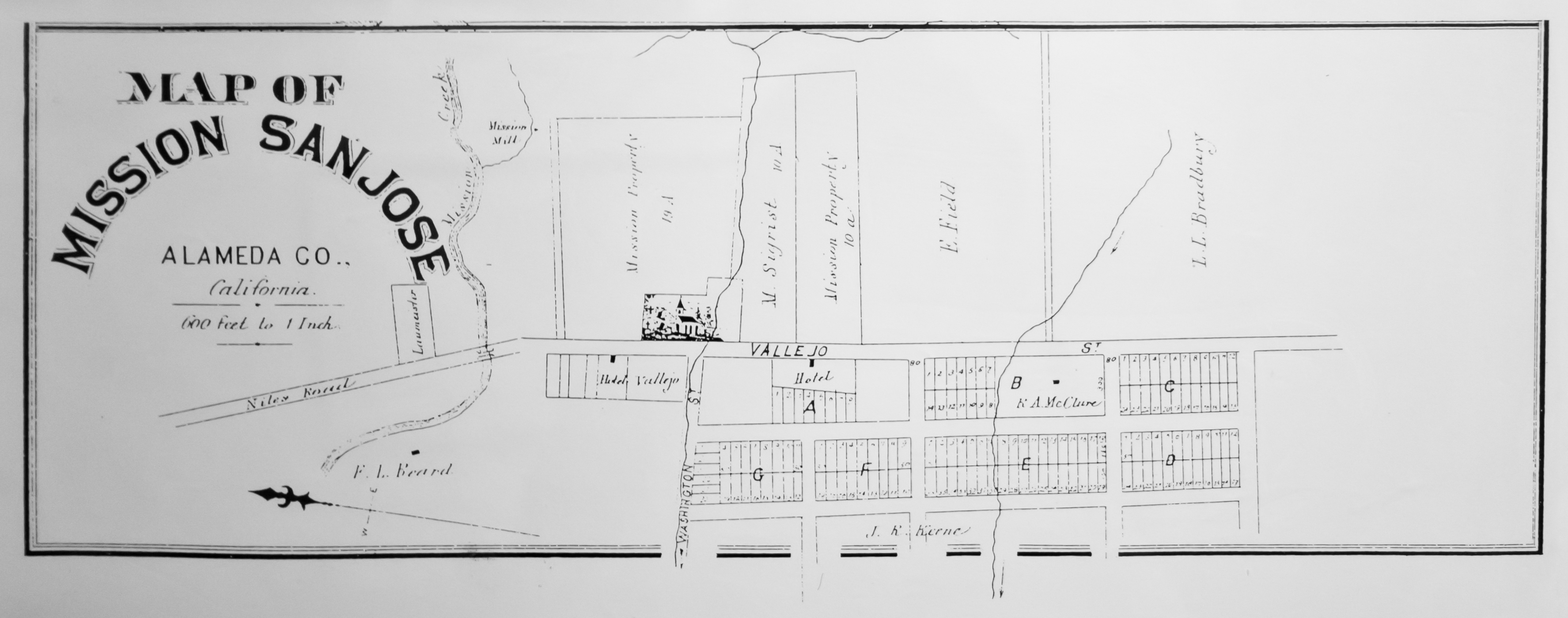 According to the exhibit caption: "Official and Historical Atlas Map of Alameda County, California, Thompson & West, Oakland, California, 1878, page 124."